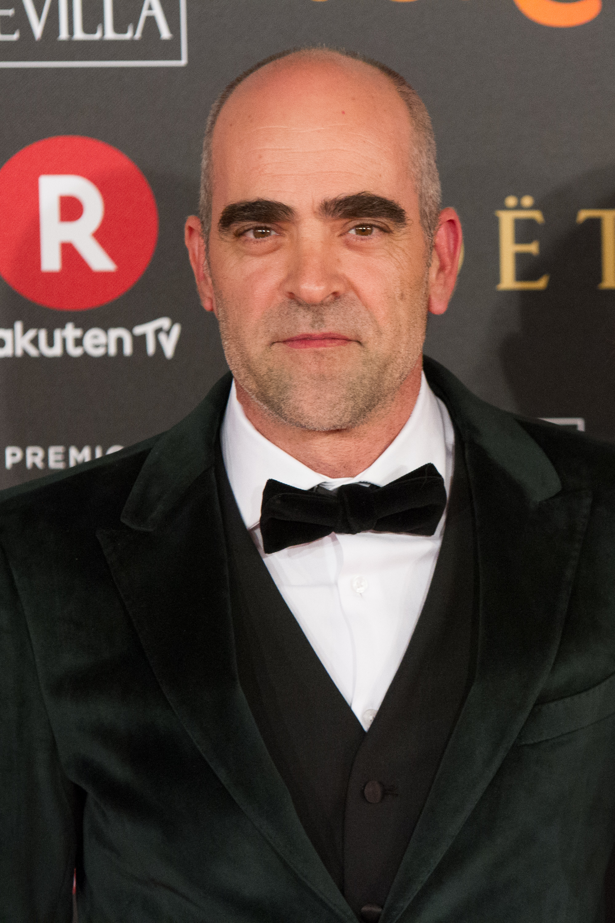 32nd Goya Awards, 2018.